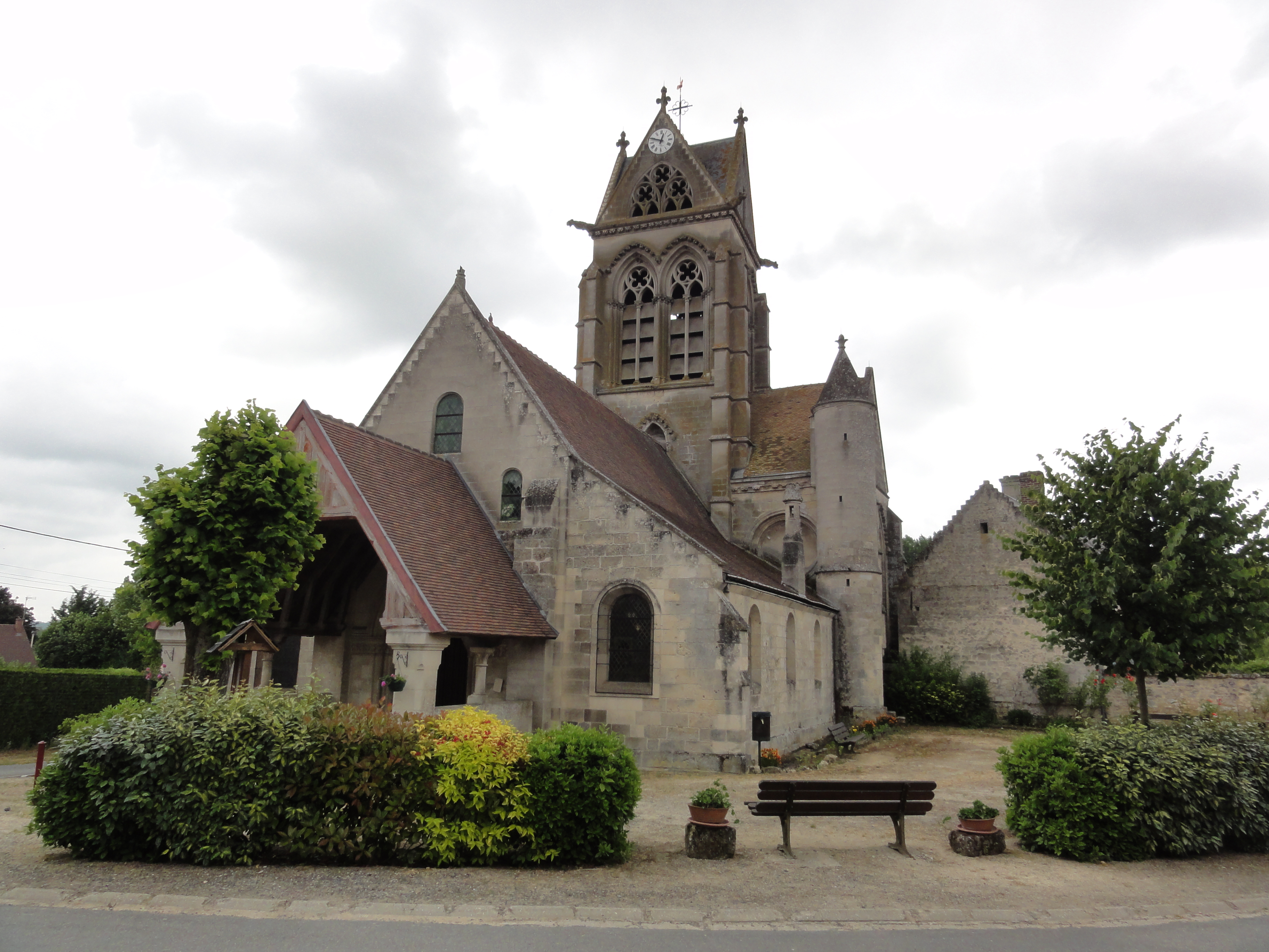 Vasseny (Aisne) église Saint-Rupert et Saint-Druon, portail tour et tourelle